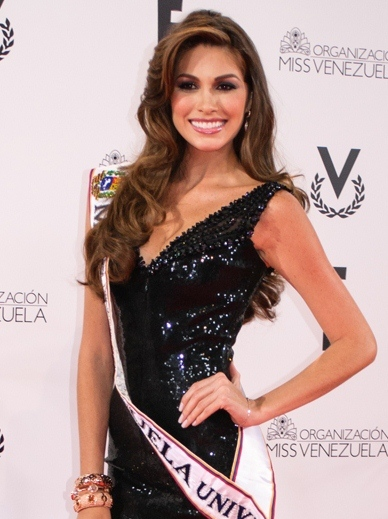 Miss Universe 2013 María Gabriela Isler at the E! Entertainment Television red carpet event of the Miss Venezuela 2013 beauty pageant.